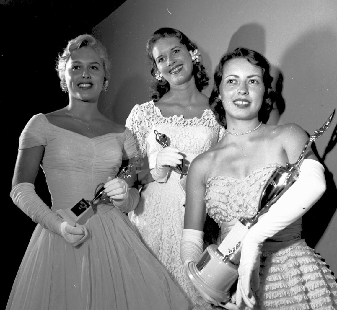 A cropped picture of contestants from Miss University of Florida.